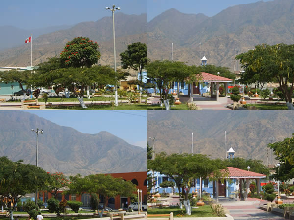 Fotos de la plaza de armas central de Tembladera en Cajamarca - Perú